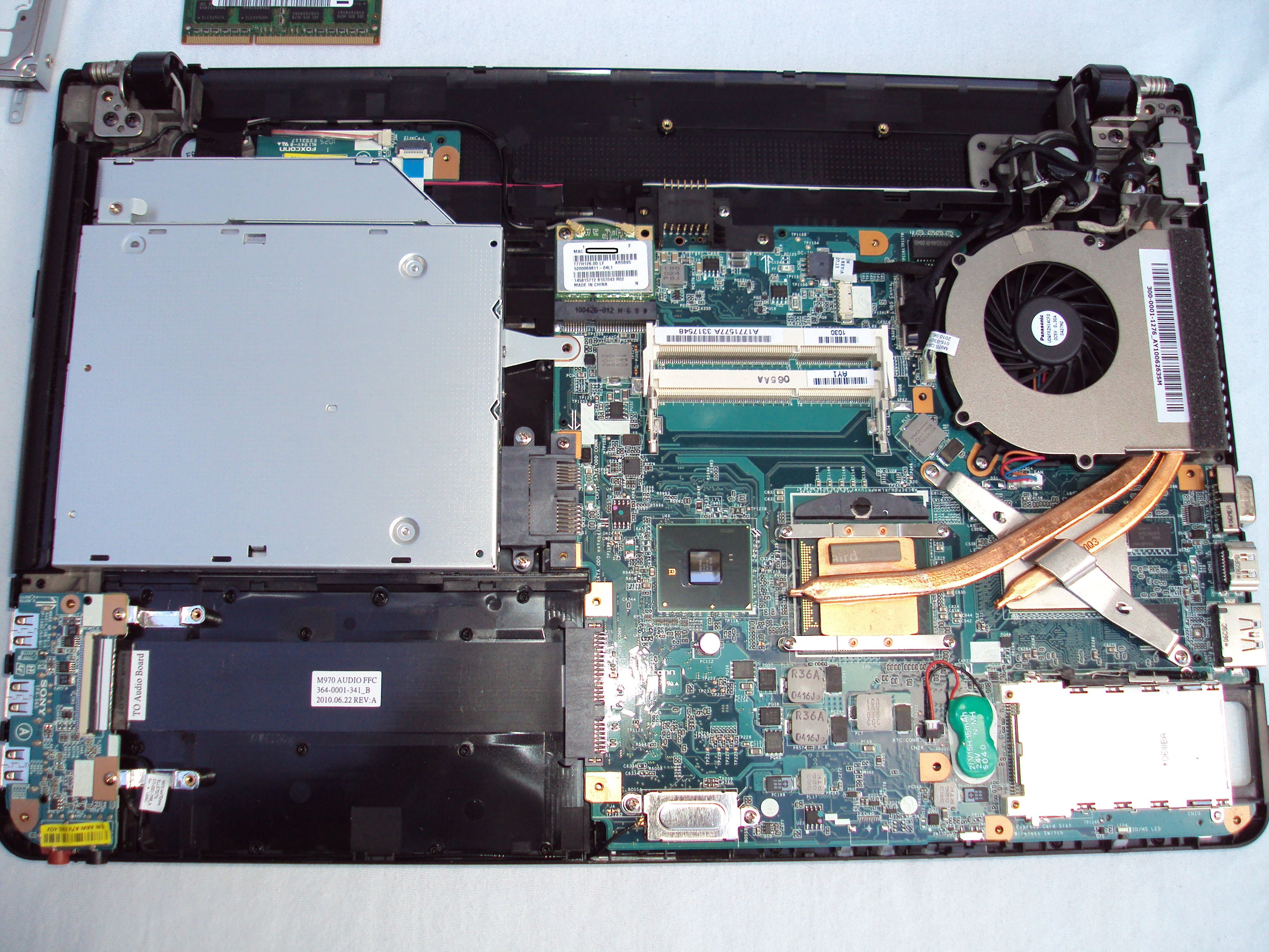 Laptop Motherboard ଓଡ଼ିଆ: ମଦରବୋର୍ଡ